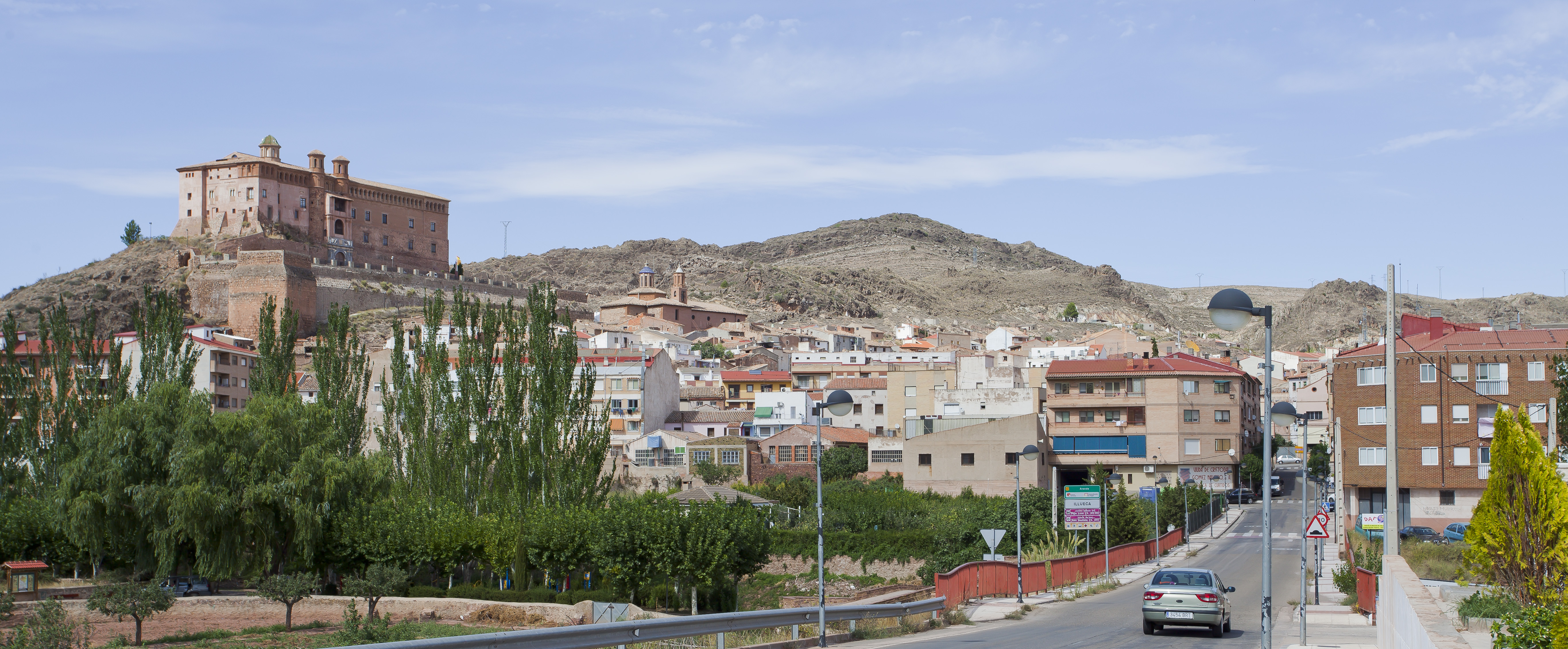 General view of Illueca, Spain